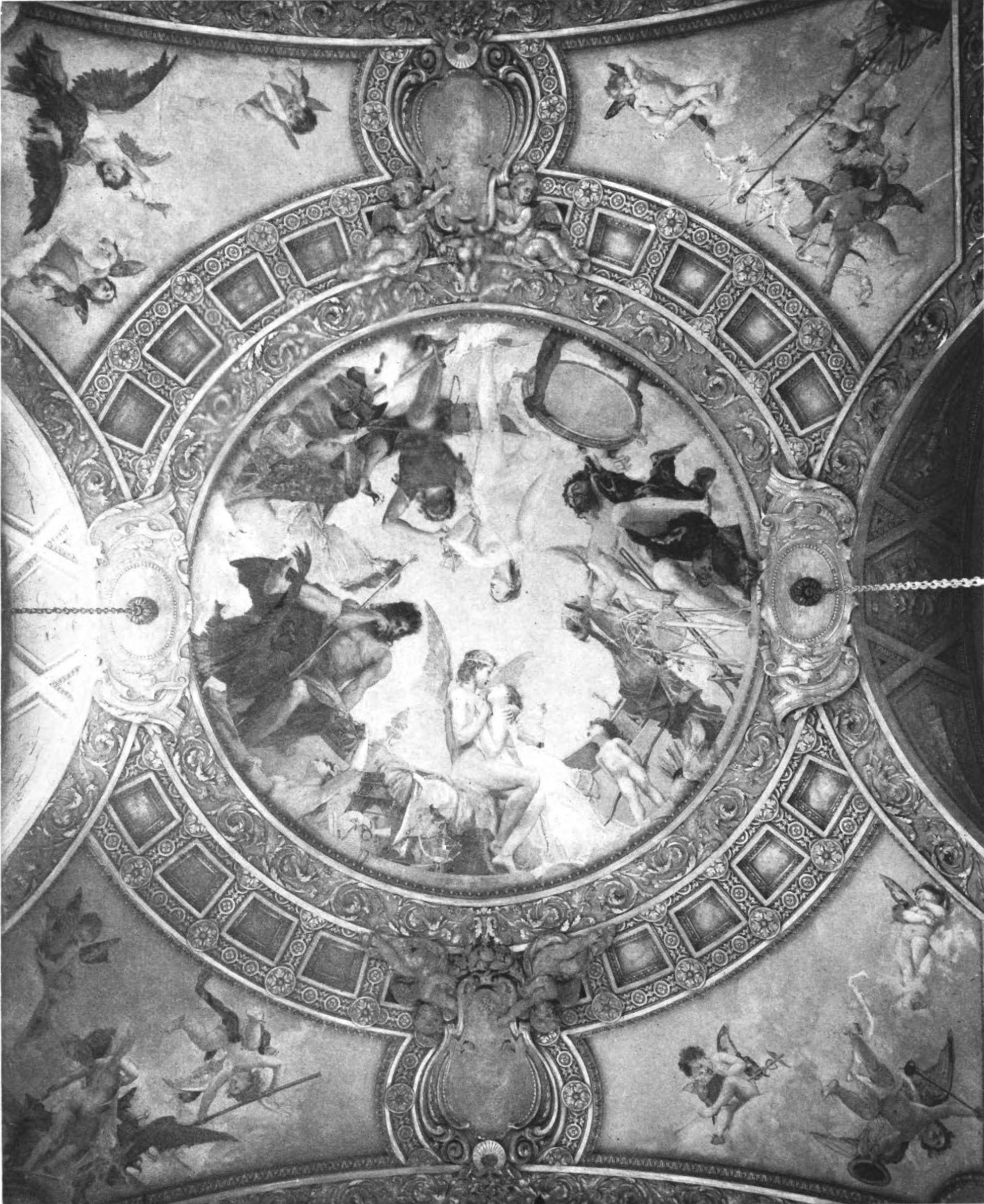 Main foyer ceiling central panel of the New Theatre on Central Park West in New York City.